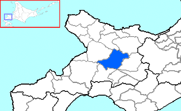 The location of Kutchan in Shiribeshi Subprefecture, Hokkaido Prefecture, Japan.